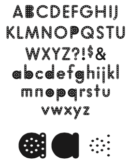 Merkur typeface (2004) by Marek Pistora